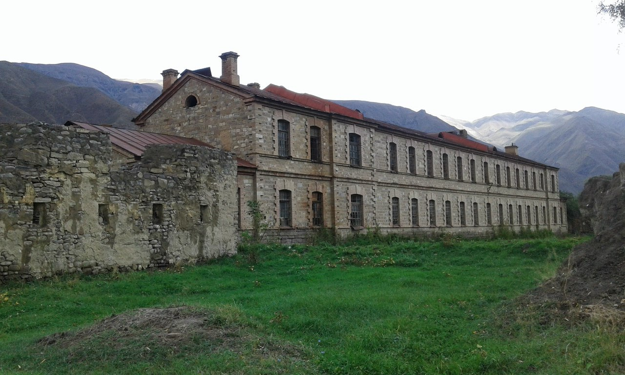 Barracks Ahtynsky fortress